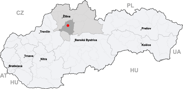 map of Slovakia, city of Martin highlighted